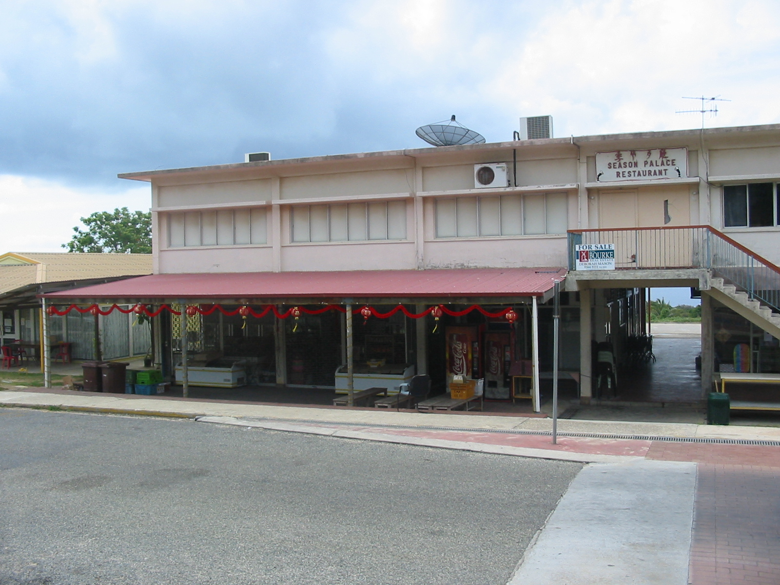 Poon Saan, Christmas Island, Australia. Taken by User:Takamaxa of ENglish Wikipedia.